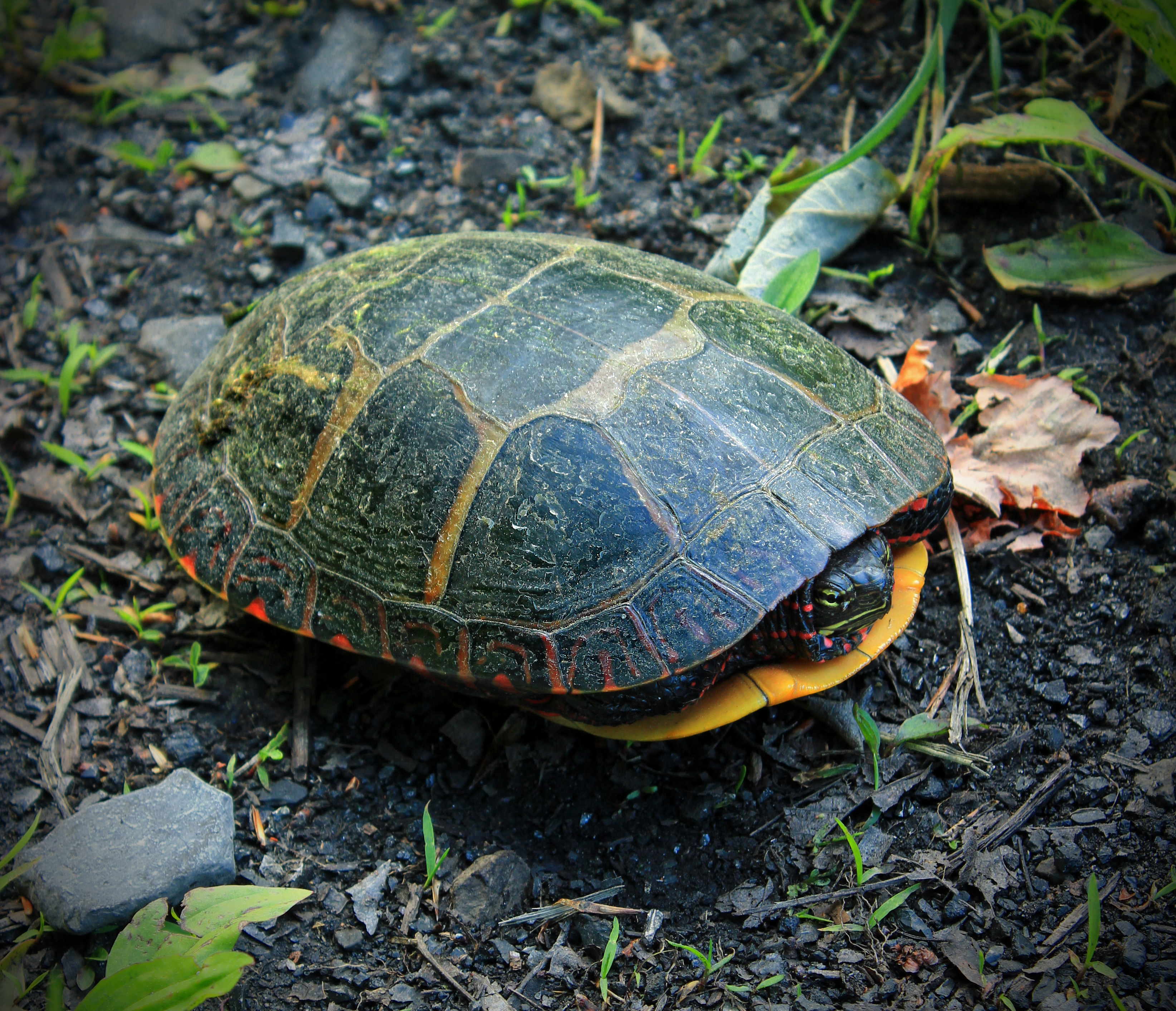 Painted turtle (Chrysemys picta) near the Frank Gantz Trail, Gouldsboro State Park, Monroe County. Not sure of the subspecies; I didn't take time to examine the turtle closely. Possibly an eastern painted turtle (Chrysemys picta picta) or midland painted turtle (Chrysemys picta marginata), both of which are common to the region. I've licensed this photo as Creative Commons Zero (CC0) for release into the public domain. You're welcome to download the photo and use it without attribution.